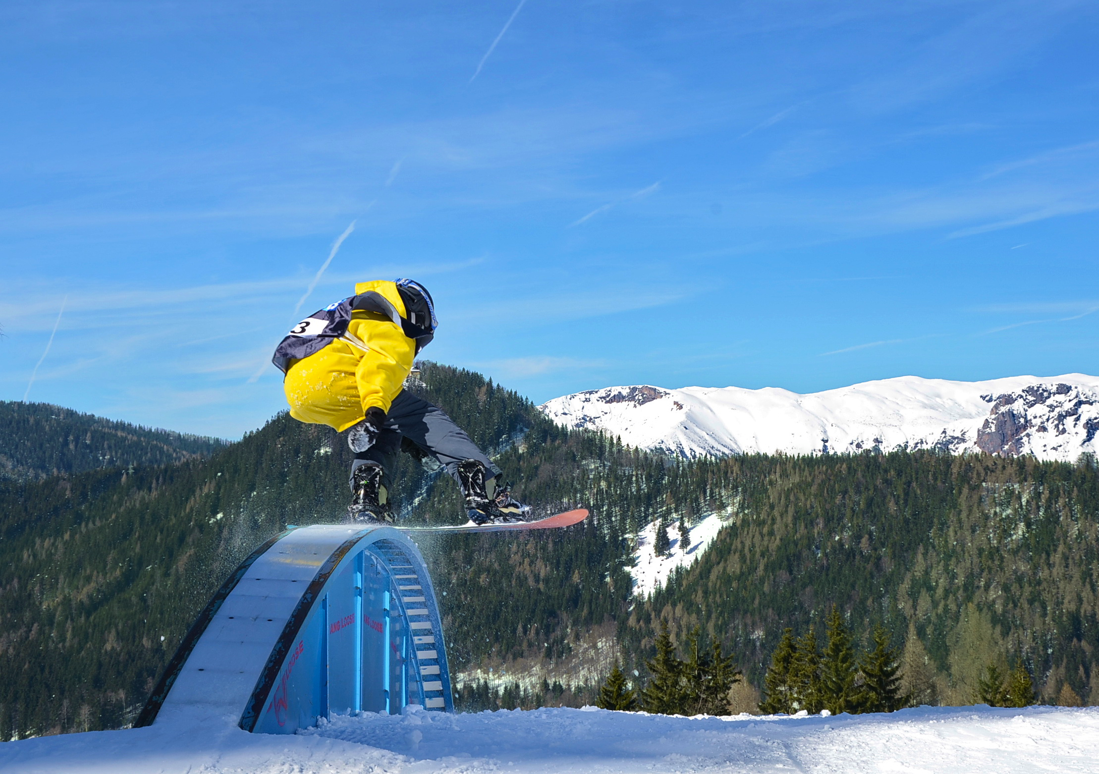 Semmering ski resort (Austria)